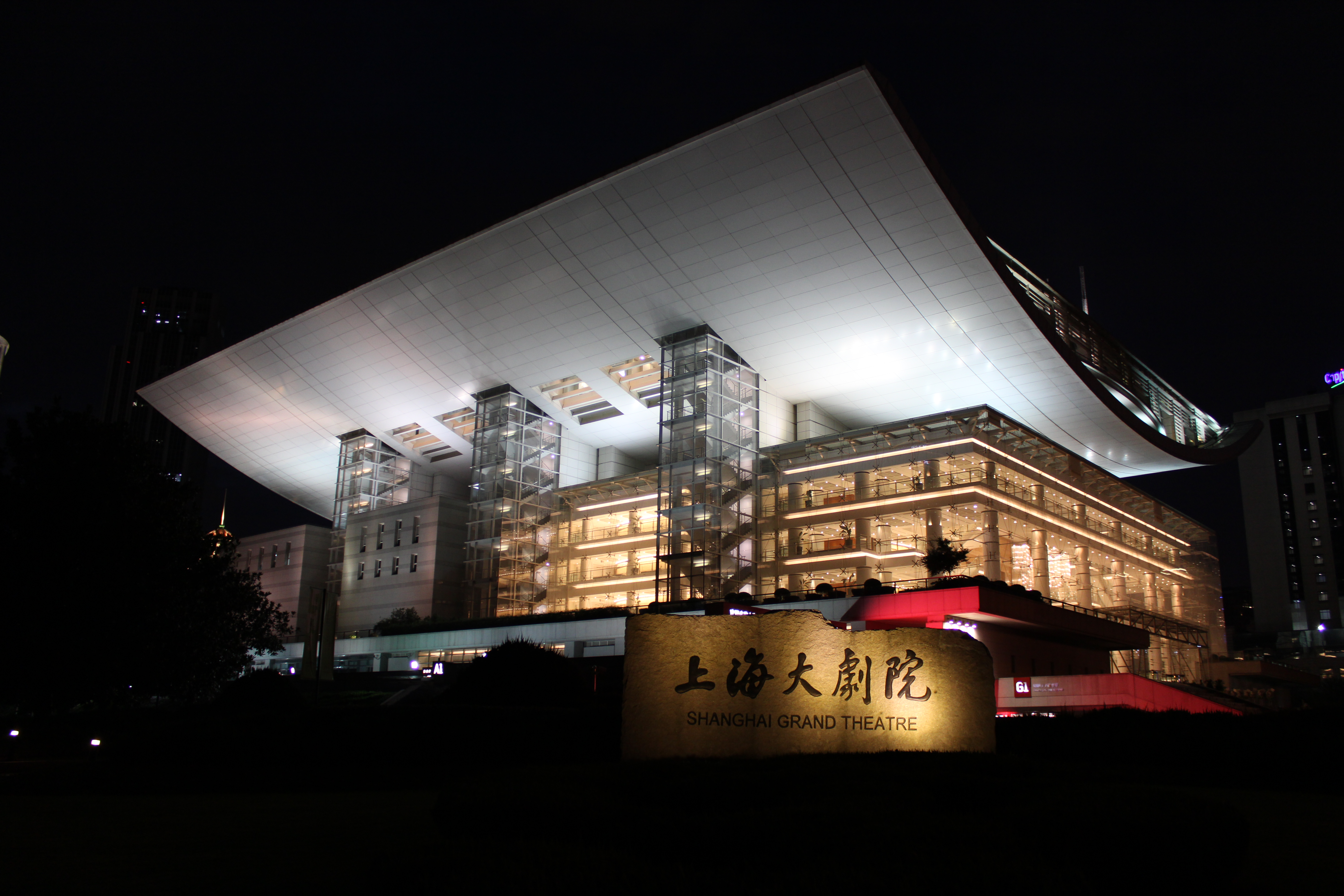 Shanghai Grand Theater with its Renmin Avenue entrance at night.